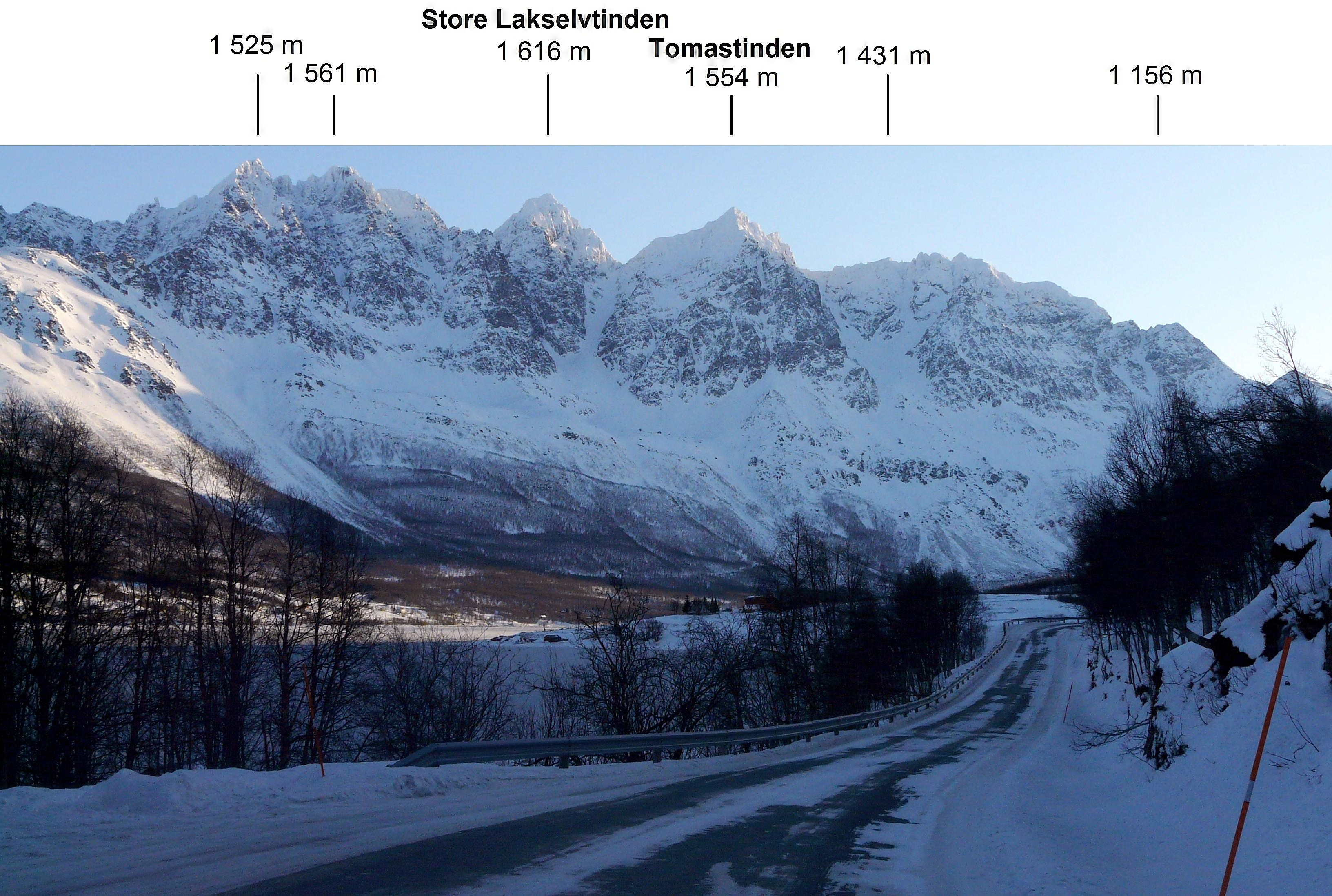 Lakselvtindane as seen from the Fylkesvei 293 road near Lakselvbukt in 2009 February. Some heights marked.